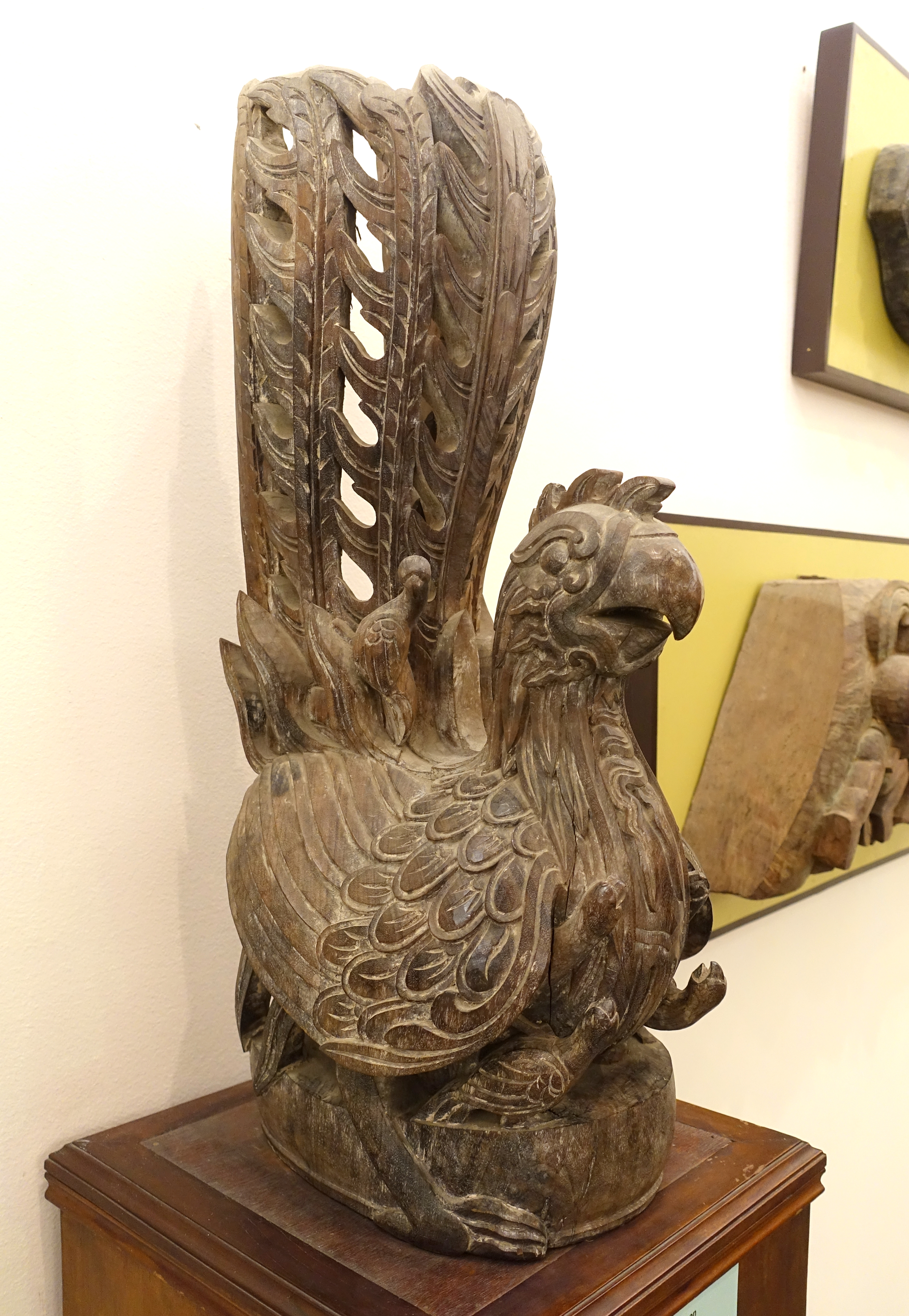 Exhibit in the Vietnam National Museum of Fine Arts - Hanoi, Vietnam. This artwork is old enough so that it is in the public domain.